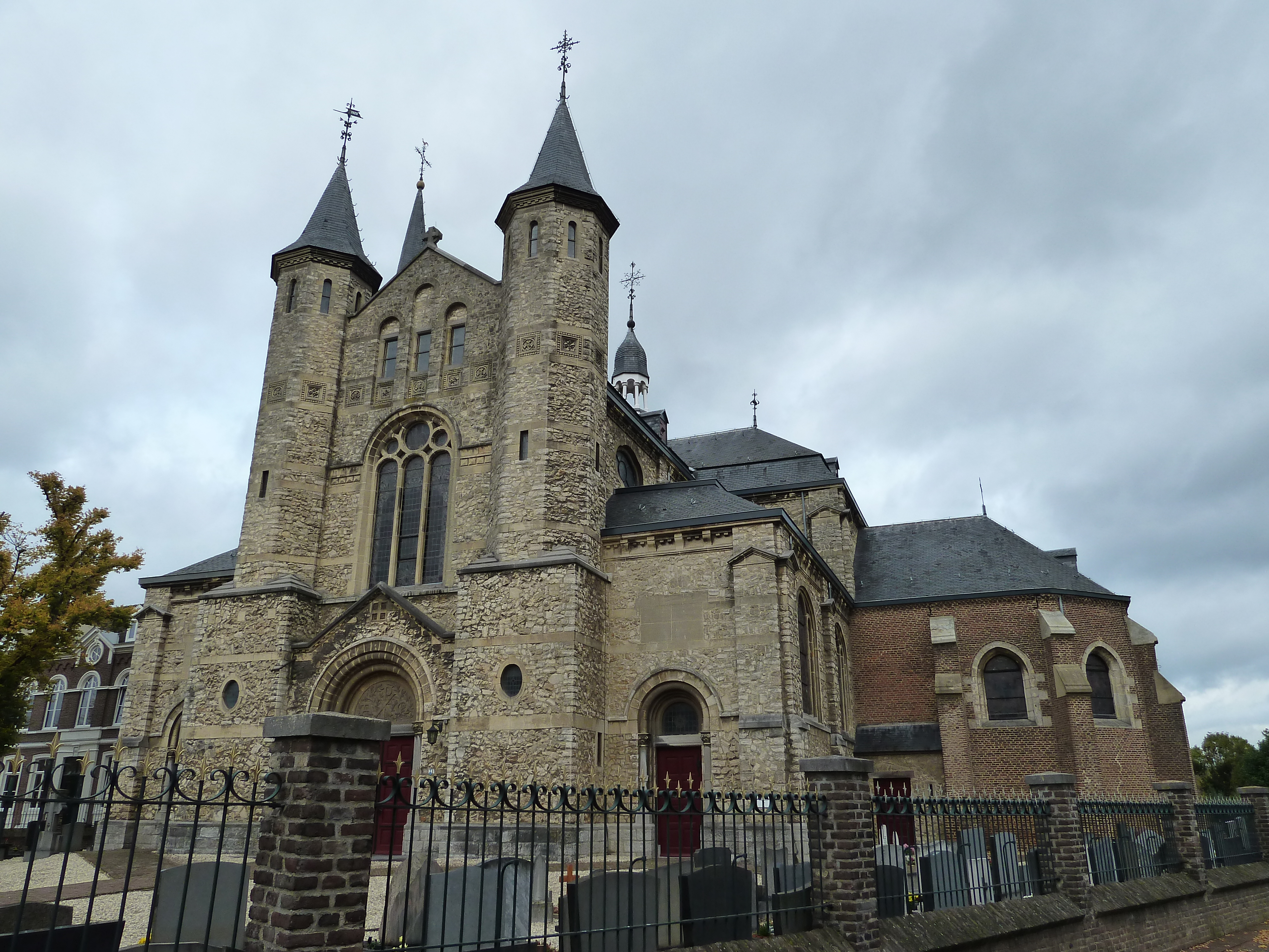 Church, Geulle, Limburg, the Netherlands